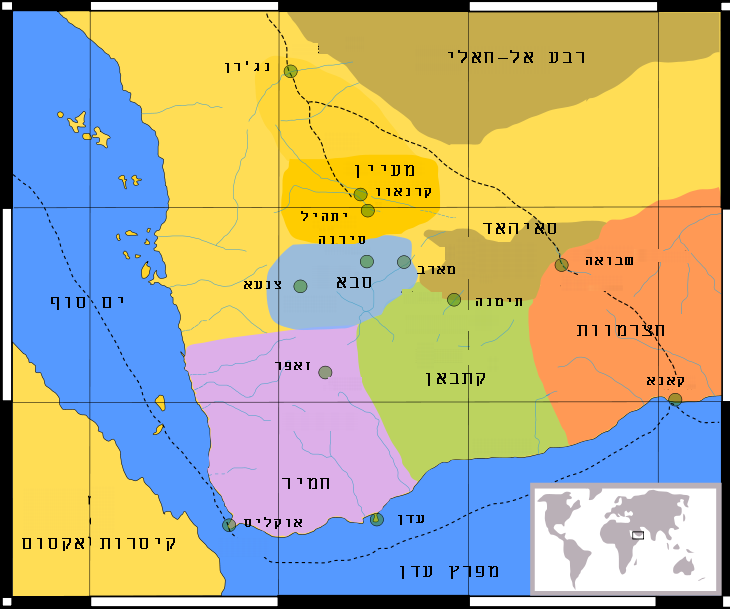 Ancient Yemen 100 AD